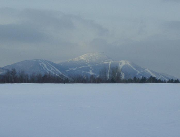 Jay Peak as seen from the north, with visible ski trails.